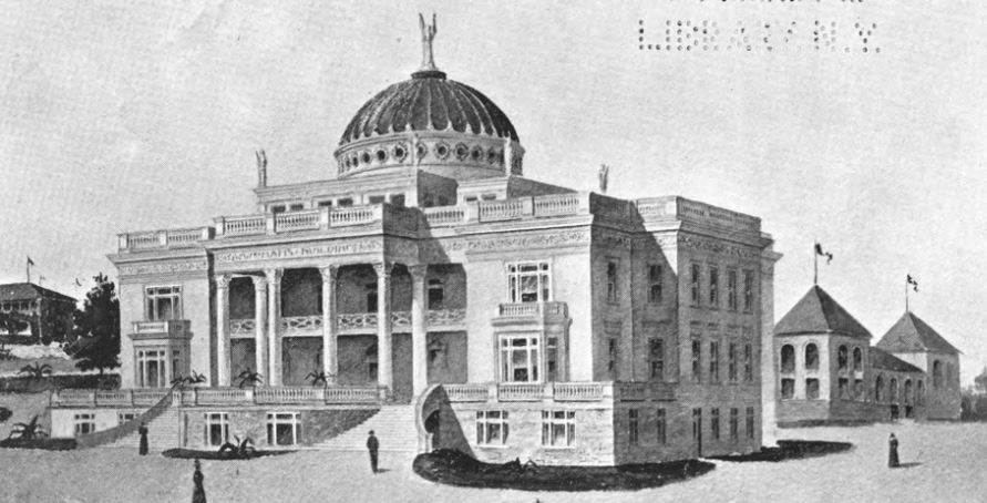 Woman's Building 1895 Cotton States and International Exposition, Architect Elise Mercur Wagner